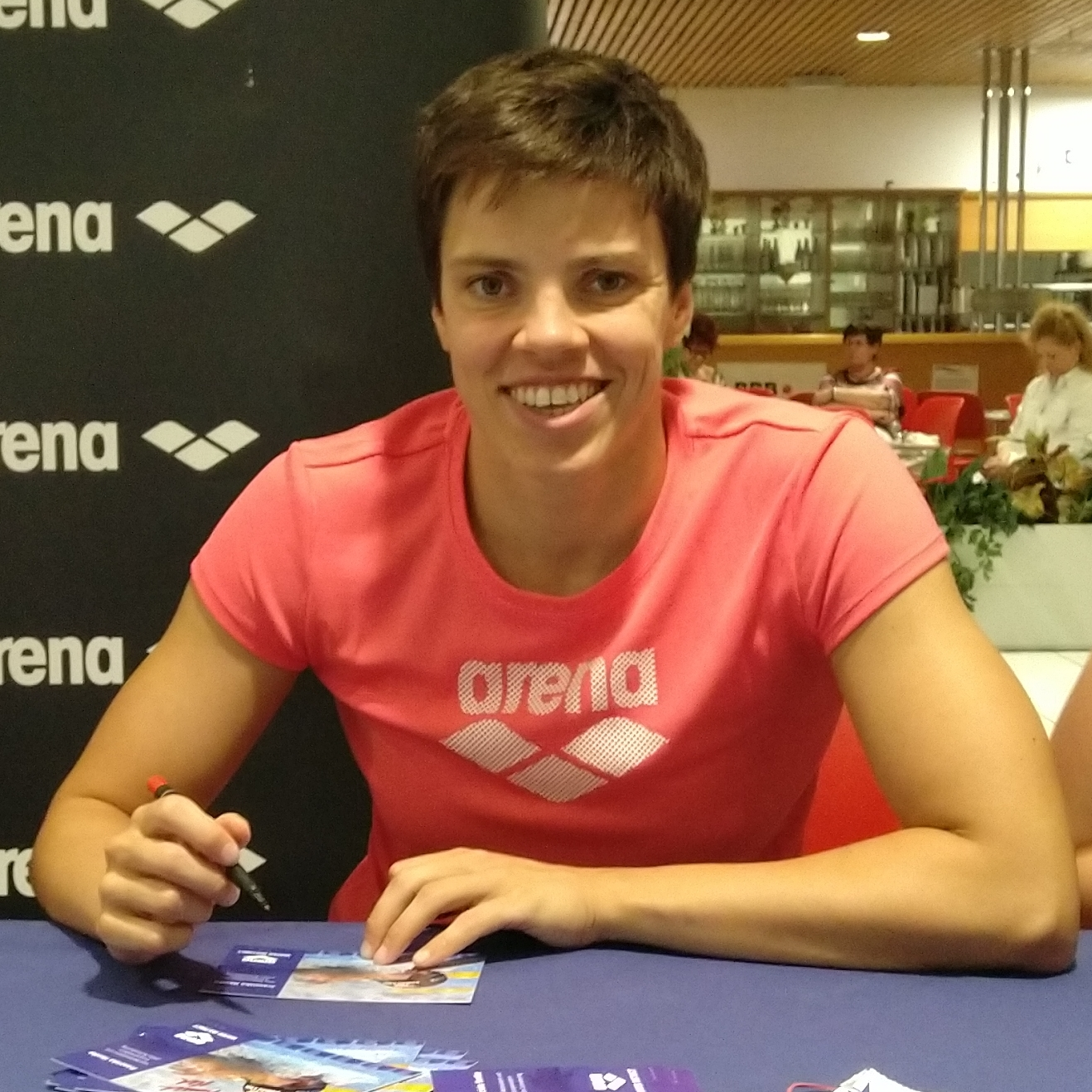 German swimmer Franziska Hentke - autograph session at German National Championships 2018 in Berlin (July 21st 2018)